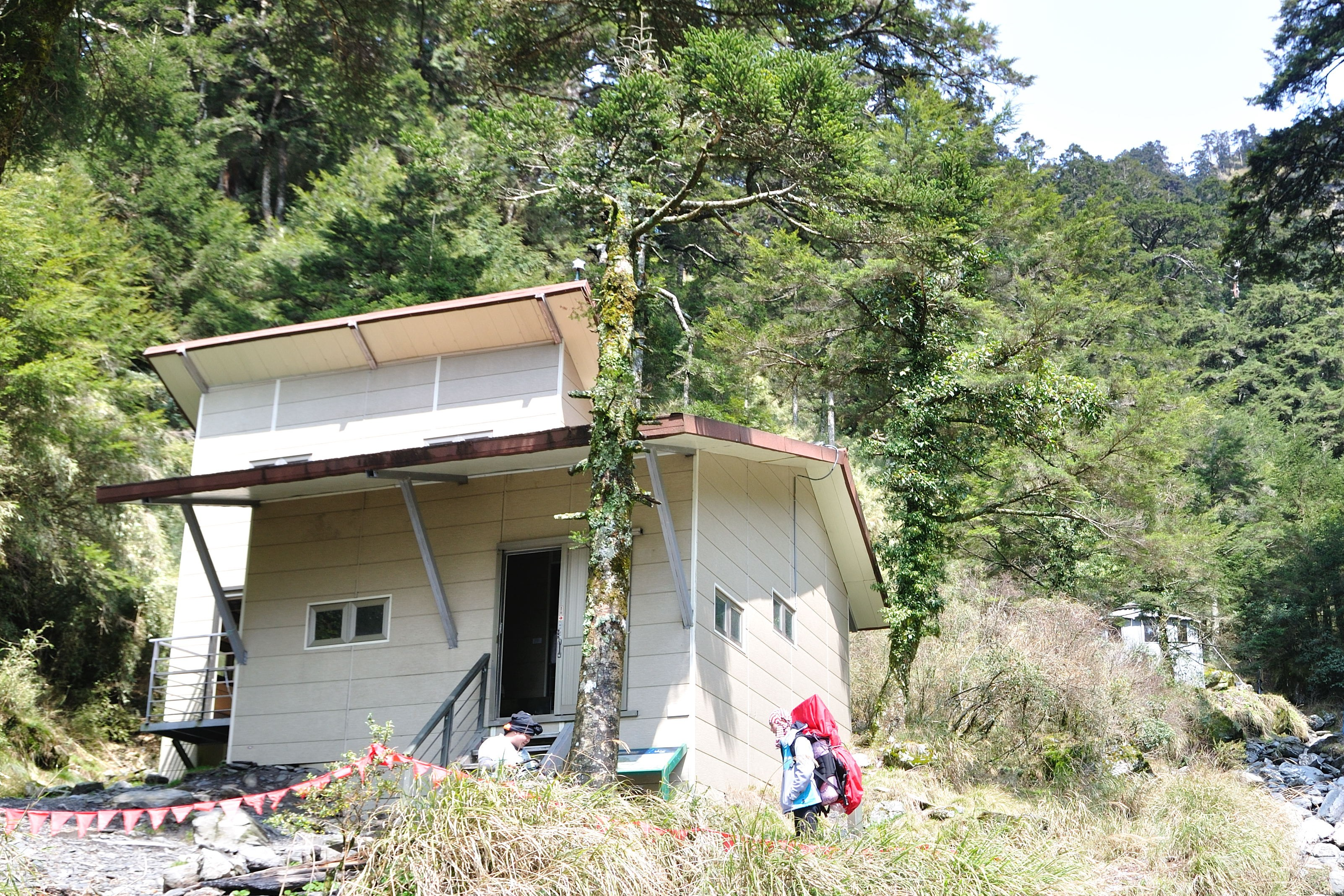 Chenggong Lodge, taken by gstung23.中文（中国大陆）: 成功山屋，由gstung23所拍摄。